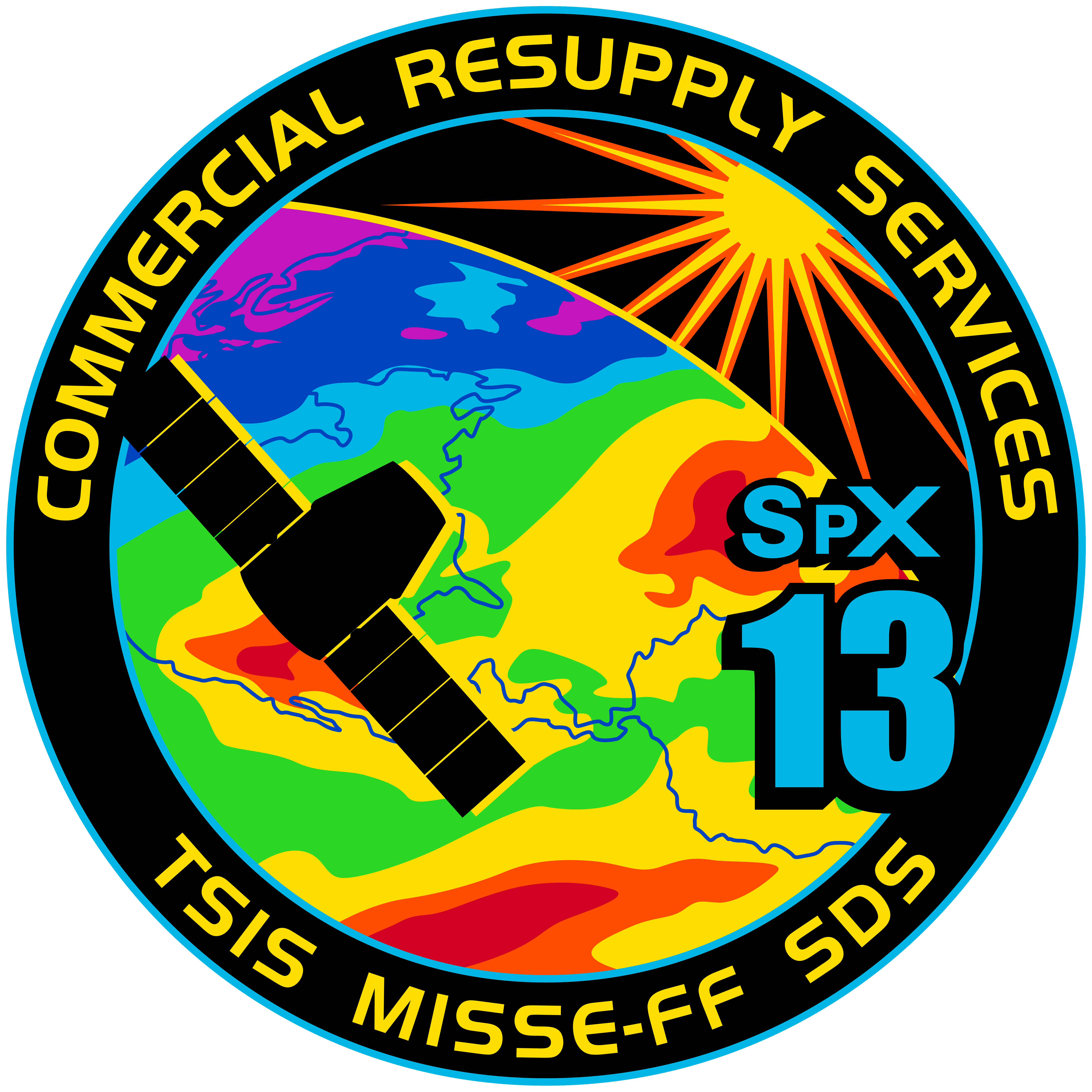 NASA's insignia for SpaceX's thirteenth Commercial Resupply Services flight to the International Space Station. Includes three notable payloads: TSIS (Total and Spectral Solar Irradiance Sensor) MISSE-FF (Materials on ISS Experiment-Flight Facility) SDS (Space Debris Sensor)